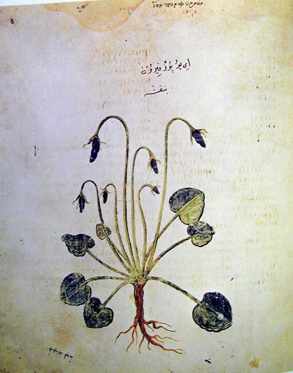 Illustration of the violet from the Vienna Dioscurides